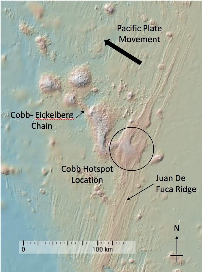 Labeled Map of the Cobb Hotspot